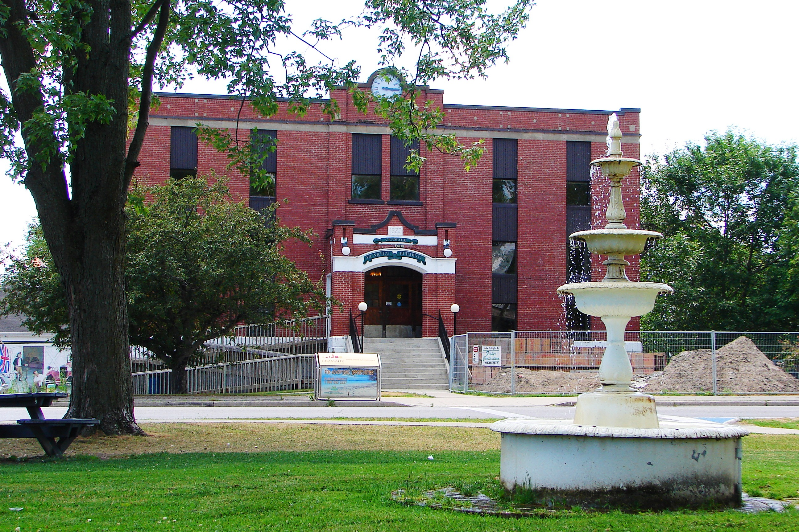 Municipal building of Cramahe Township in Colborne, Ontario, Canada